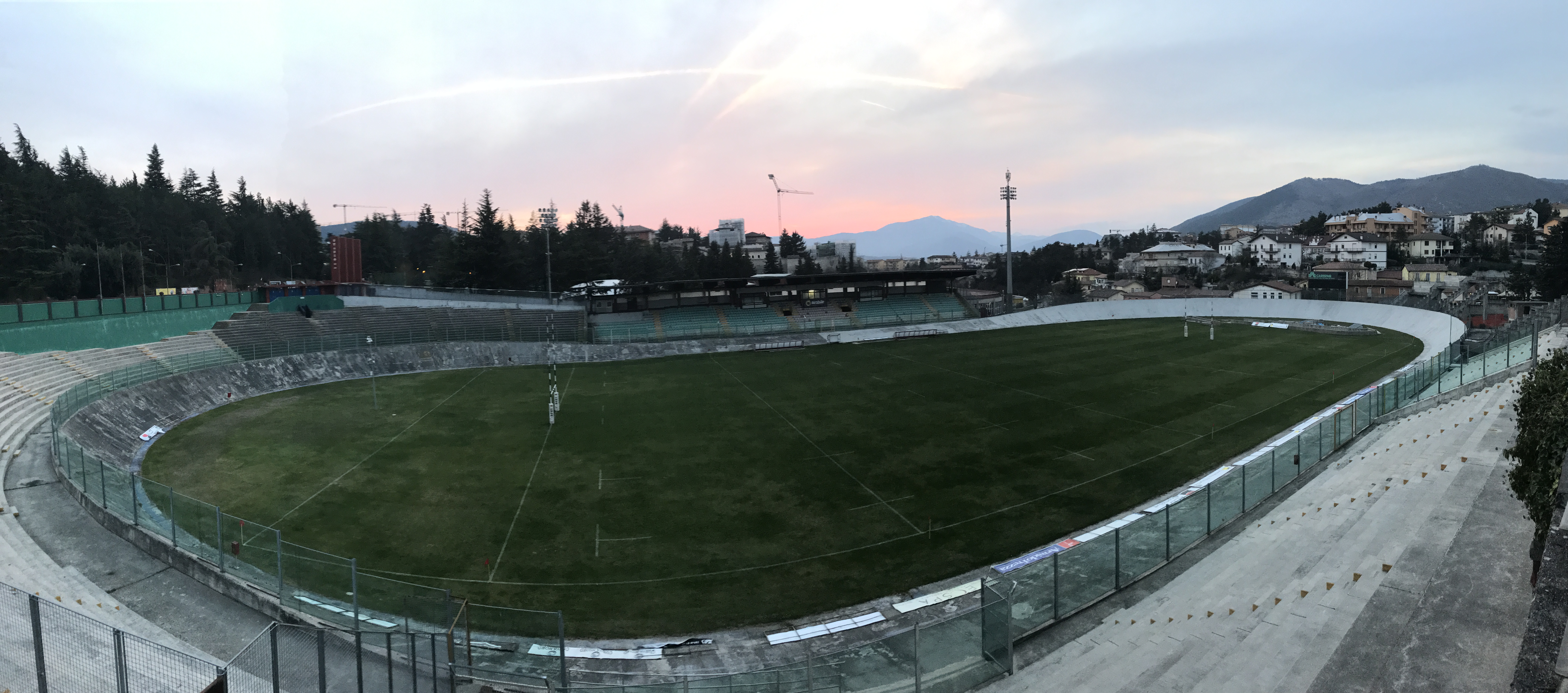 Stadion of L'Aquila.